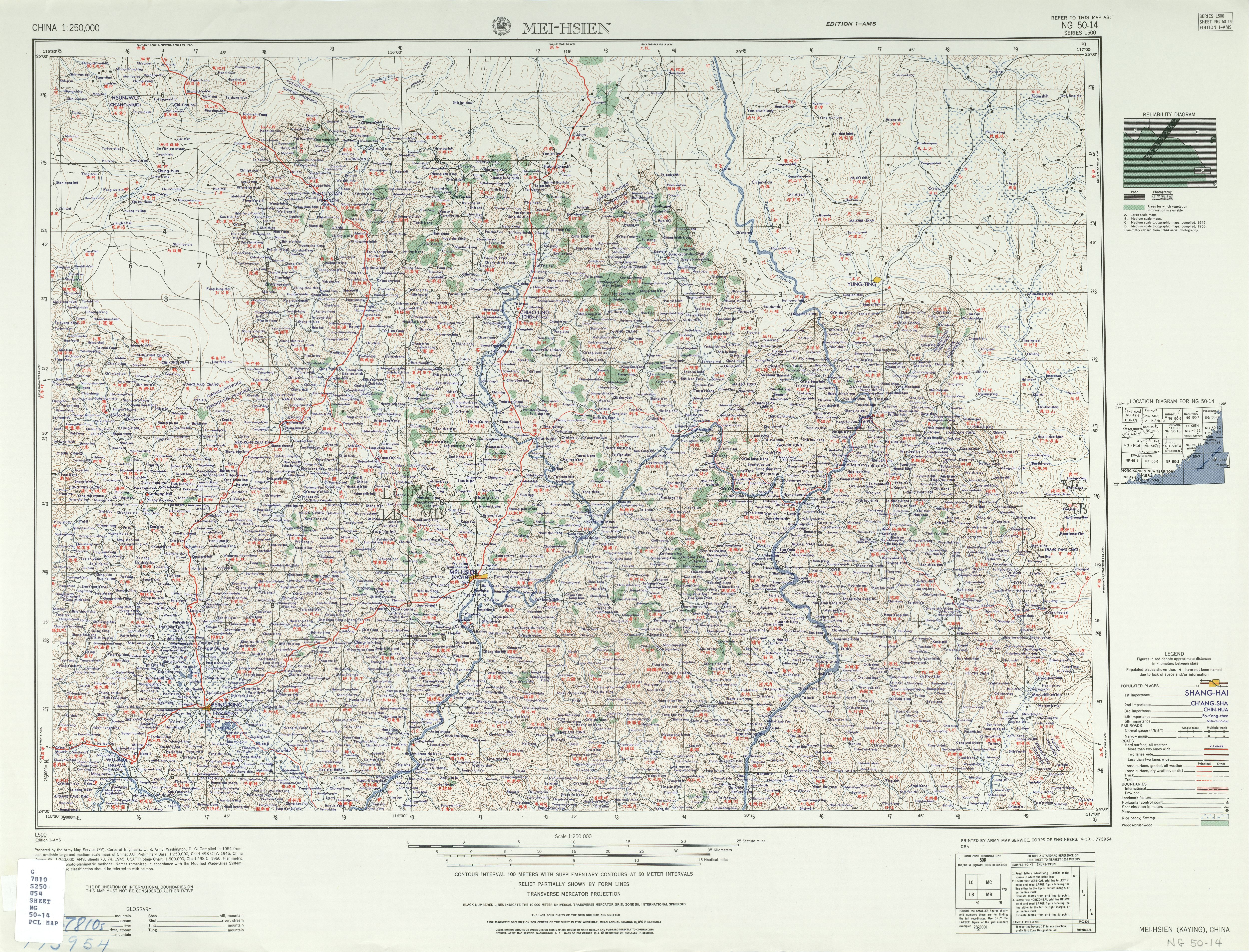 China AMS Topographic Maps